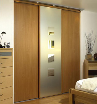 Example of a modern sliding wardrobe, fitted in a bedroom.